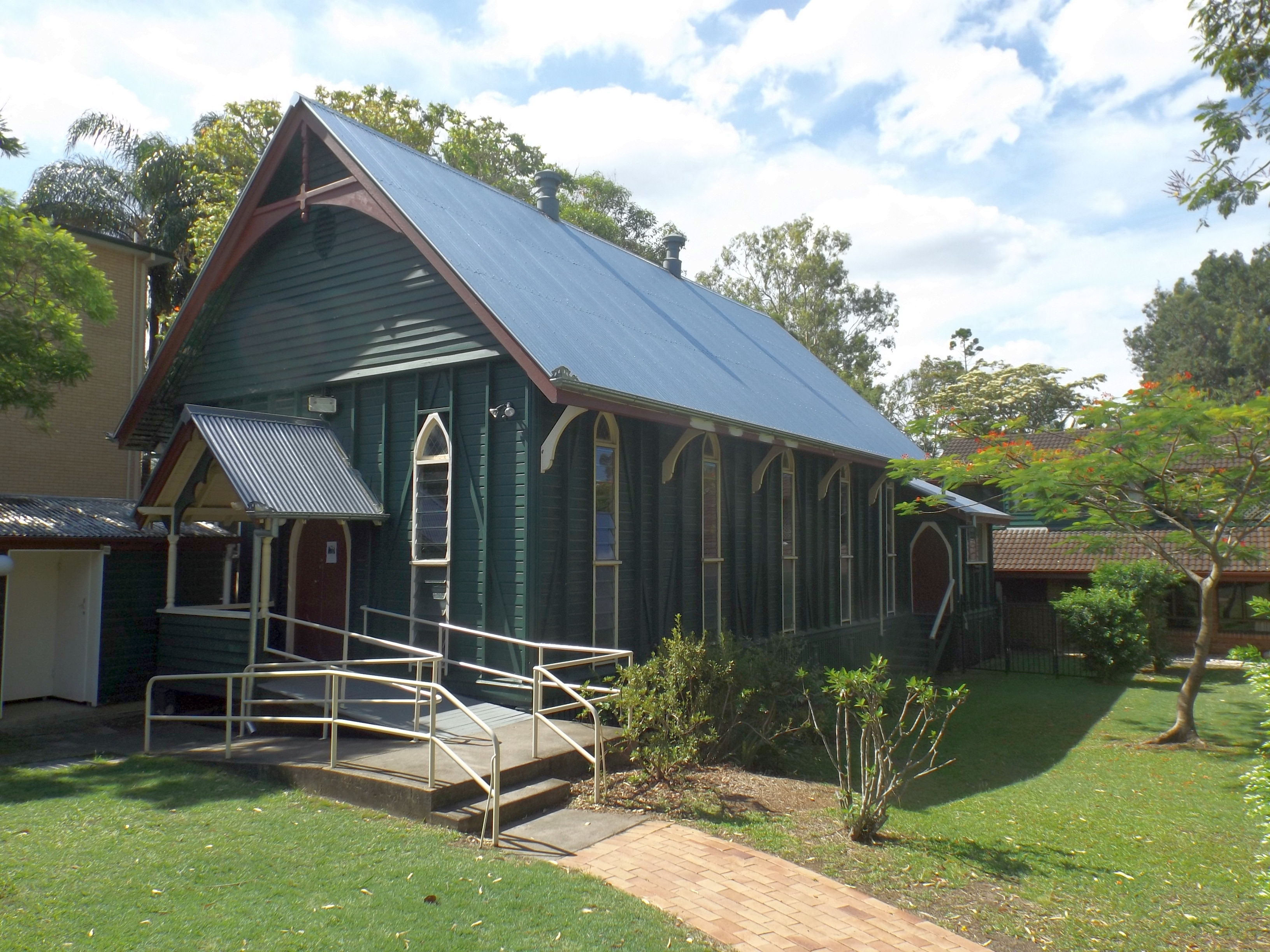 Photo of St Andrews Church Hall at Indooroopilly, Brisbane, Queensland, Australia.